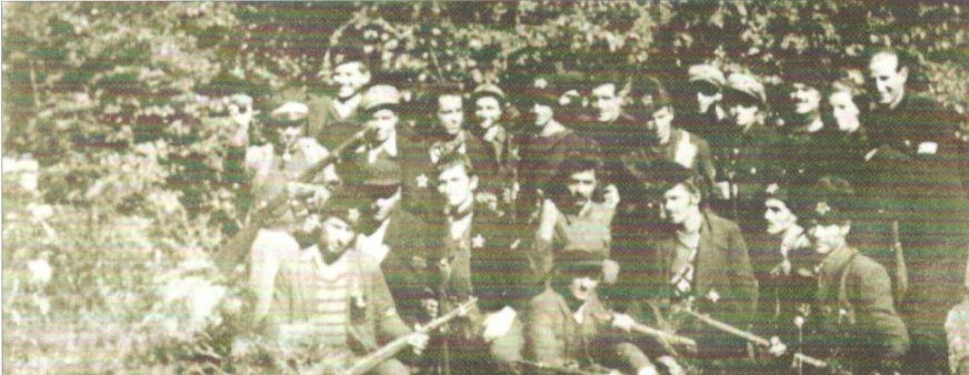 Macedonian partisan unit "Dimitar Vlahov"